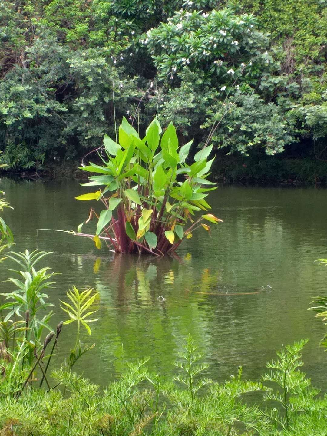 Thalia dealbata, National Museum of Natural Science, Taichung, Taiwan.